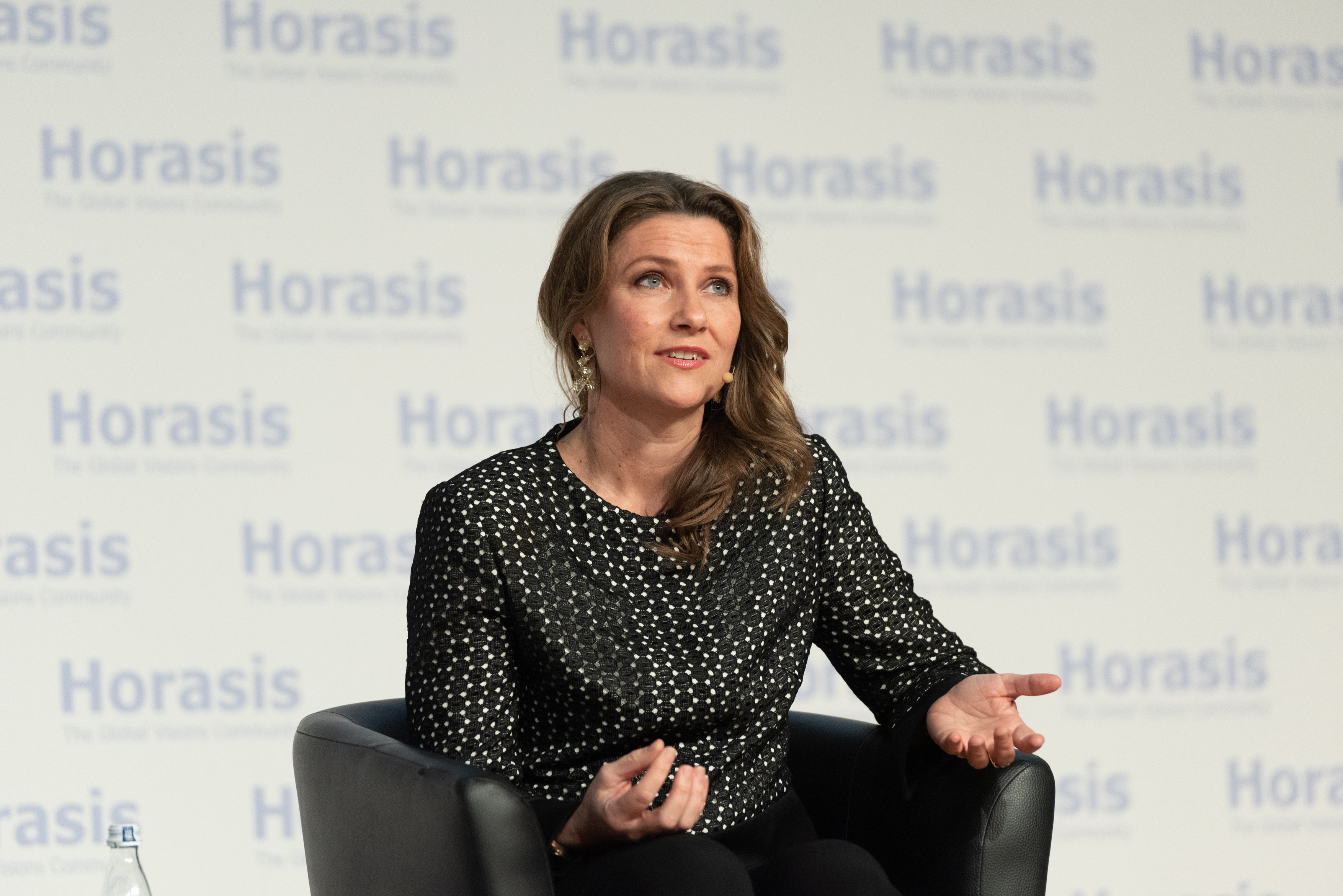 HH Princess Märtha Louise of Norway - 'we have to connect with Mother Earth'.